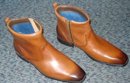 Rockport Leather Dress Boots